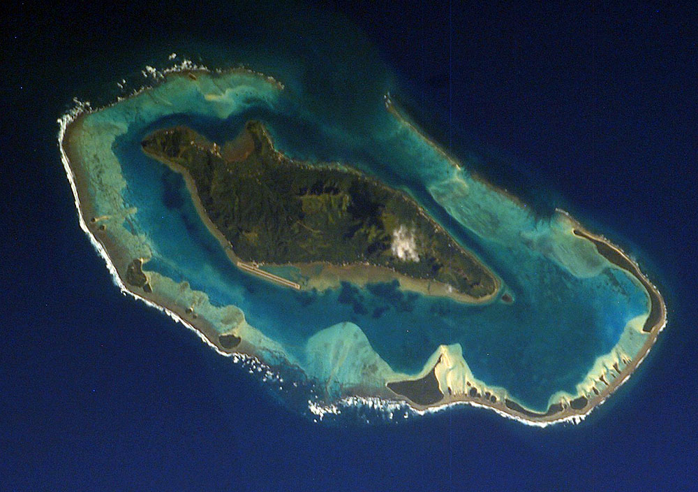 NASA astronaut image of Raivavae, Austral Islands, French Polynesia